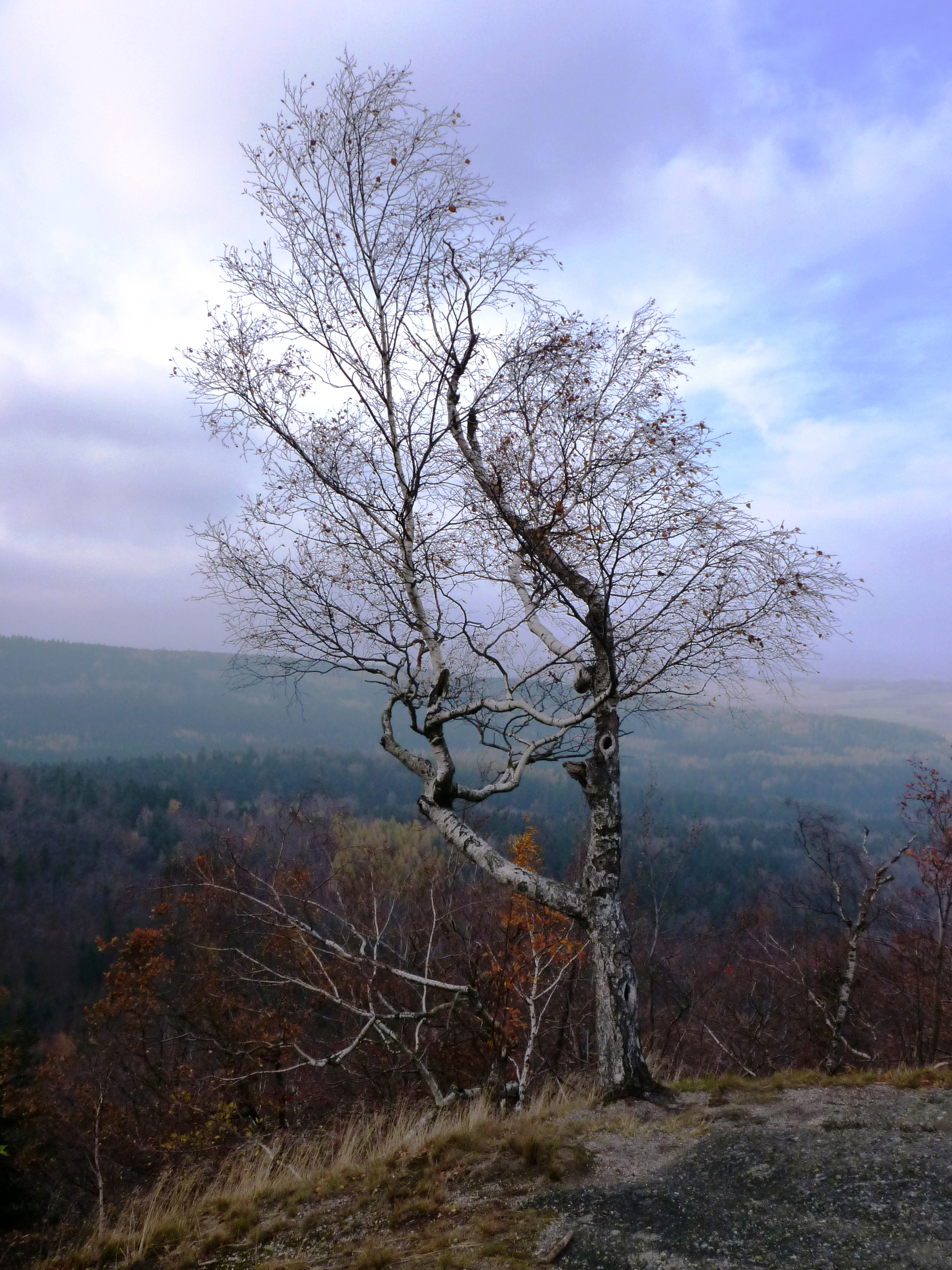 Výhled ze Skalního hradu